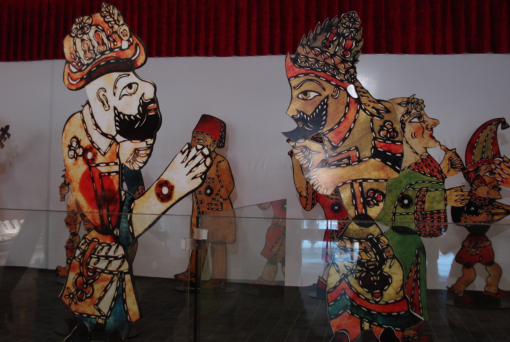 Karagöz and Hacivat figures from Turkish culture